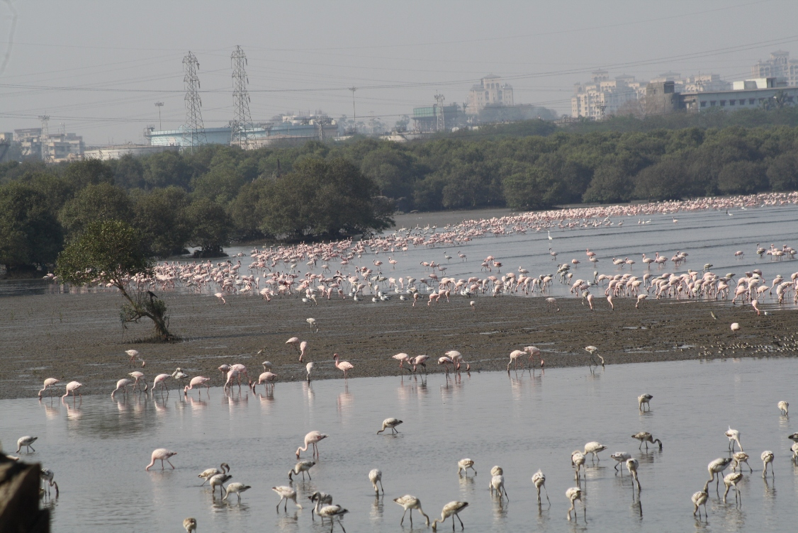 Flamingos at Mahul Sewree Mudflats Mumbai by Dr. Raju Kasambe